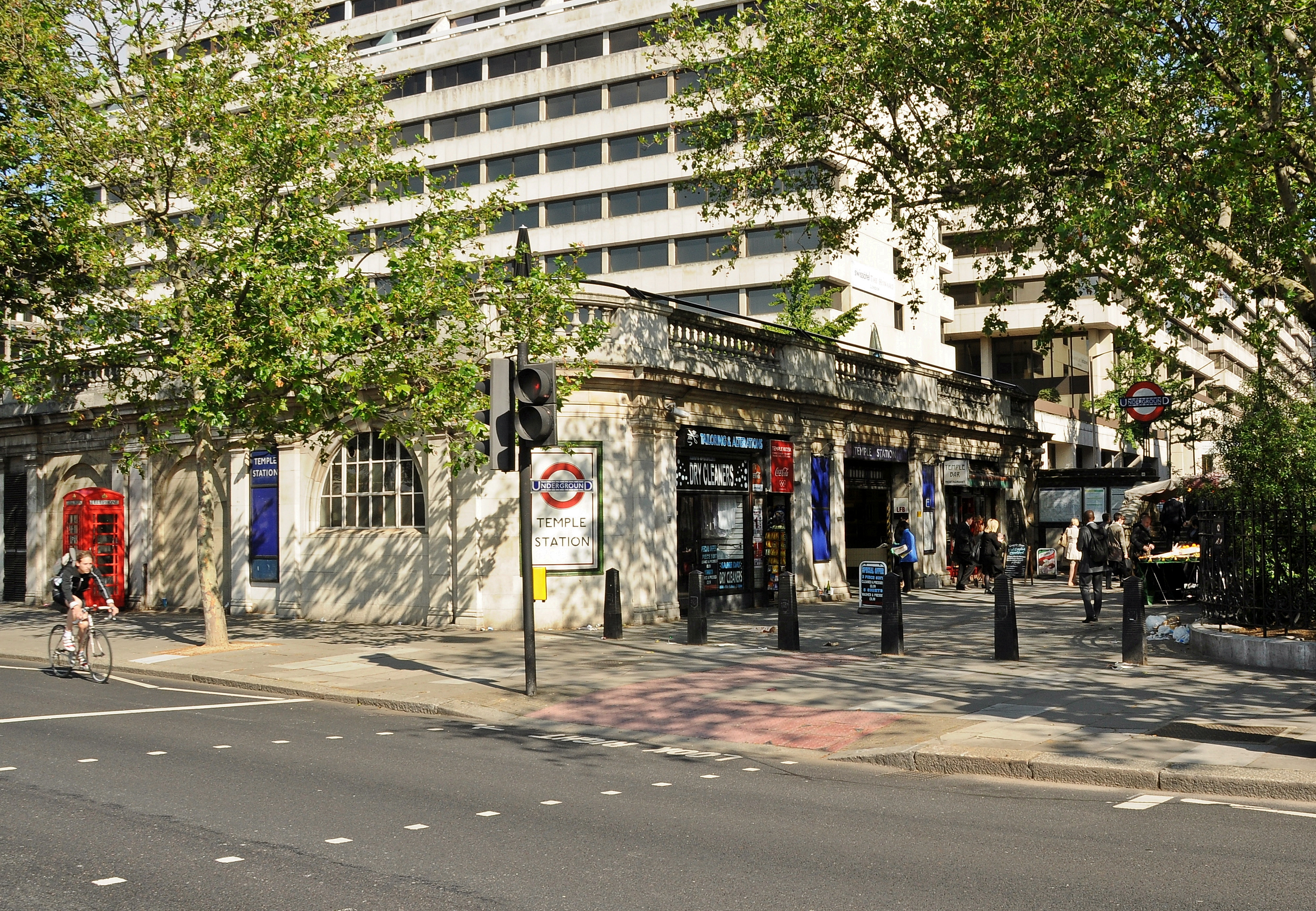 Temple station - London Underground station in the City of Westminster, on the Circle and District lines.